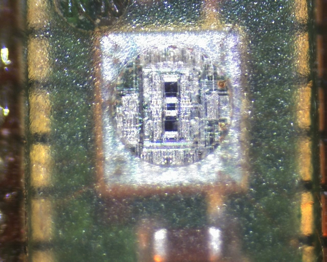 Microscope picture of such a Sensor, the two bigger black rectangles are the photodiodes for the pits, the middle one is for land.